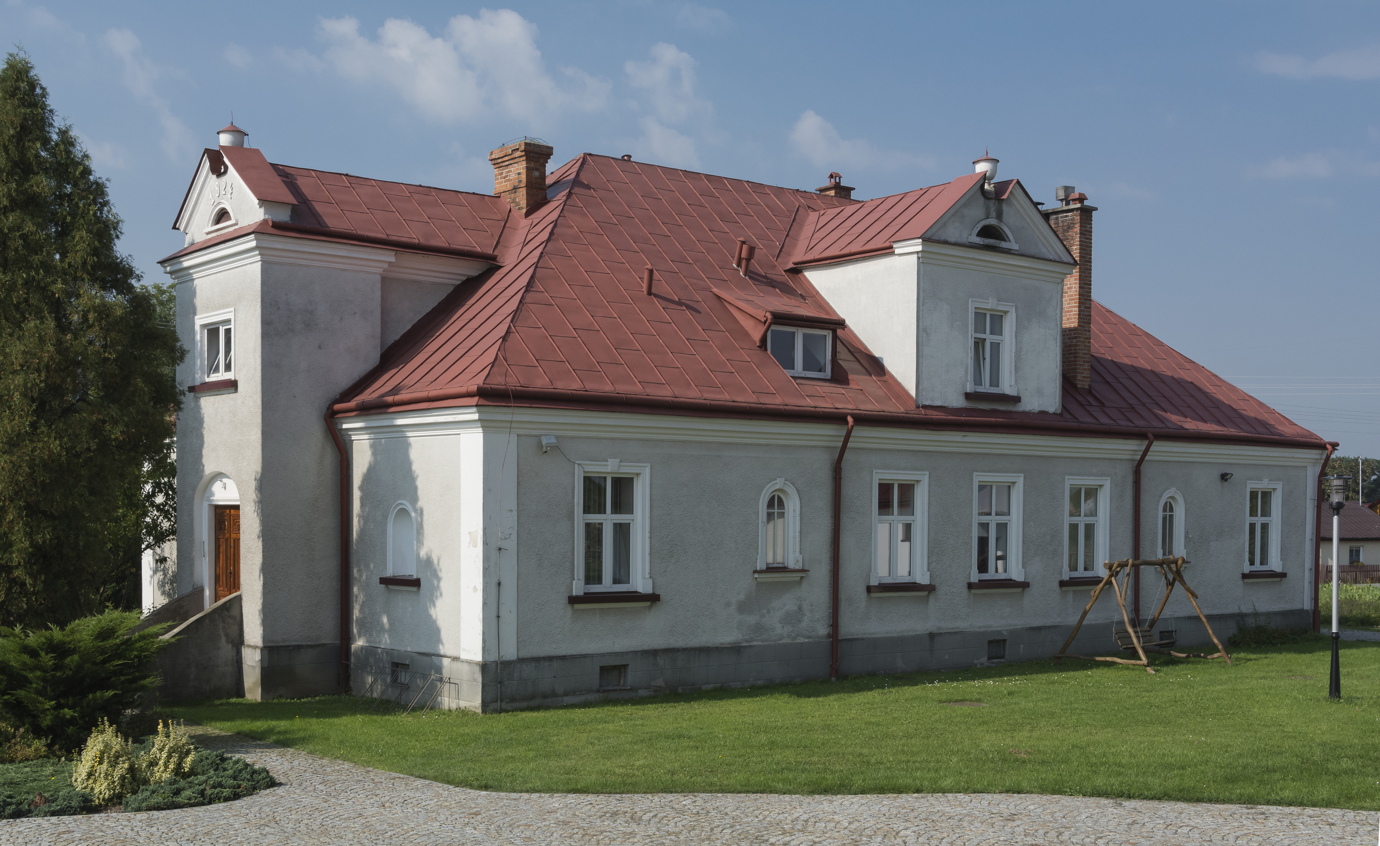 Rectory at the Church of St. Mark the Evangelist in Mielec